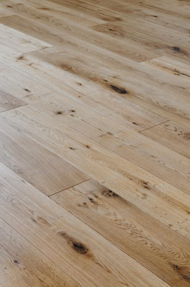 Quercus- floor 130mm-wide solid